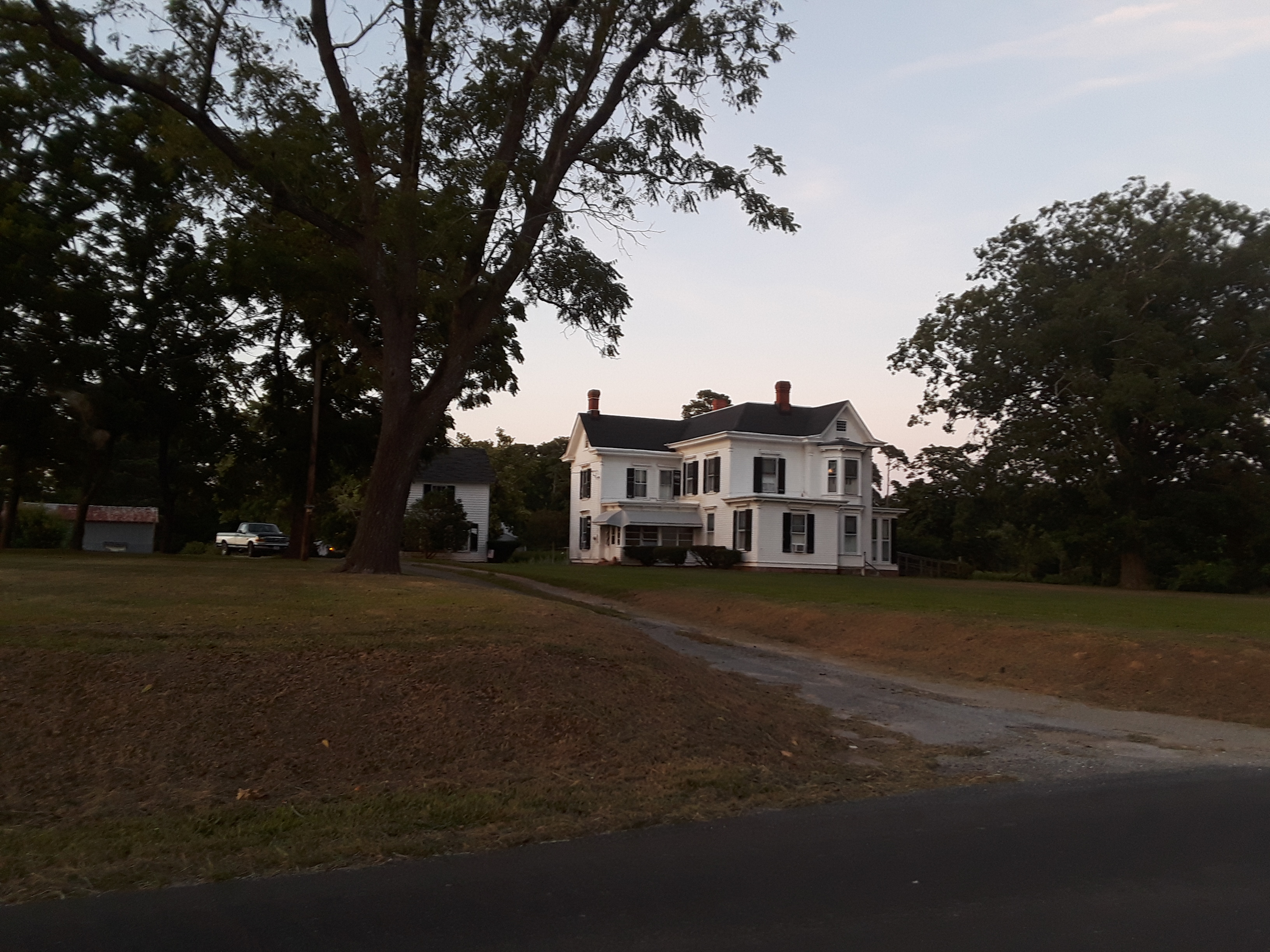 Taken on a visit to the Eastern Shore of Virginia, July 2018